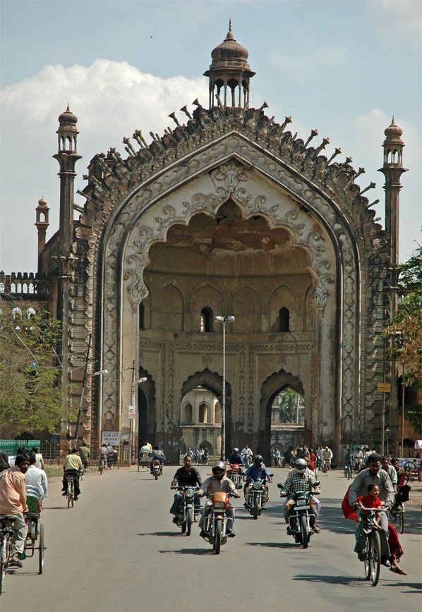 This photo was taken by Sayed Mohd Faiz Haider Rizvi.